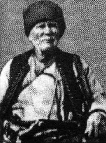 Idriz Seferi and his men near Ferizaj (1910)